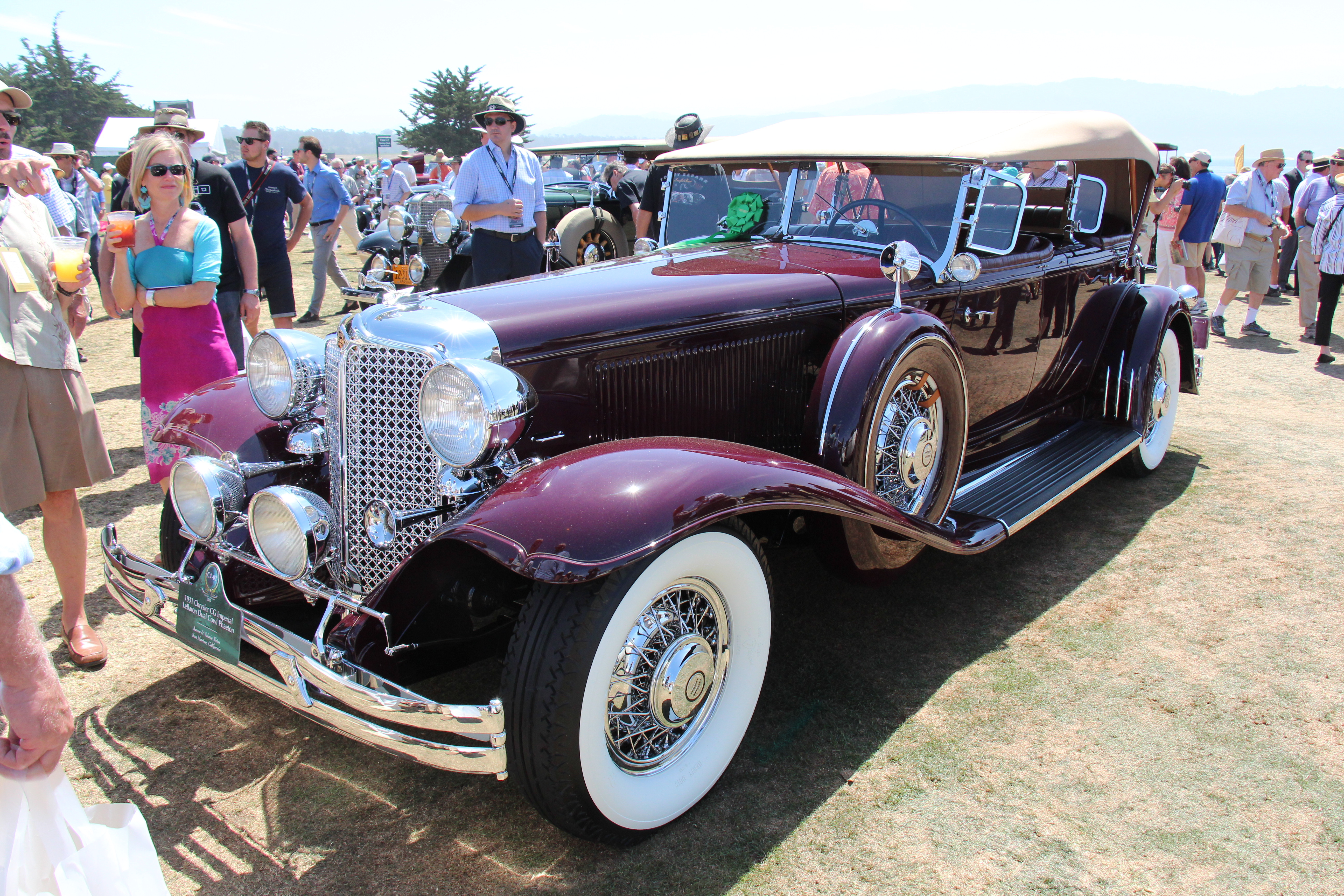 The Imperial was built from 1926-54 and was the top of the line Chrysler. Chrysler’s Imperial had grown from simply an upmarket version of lesser models into something truly unique and special. It had been graced with classically beautiful styling. Drivers with funds to spare could opt for semi-custom bodywork, such as LeBaron. With aviation in the forefront of American culture, the open LeBaron custom body styles adopted aircraft-like leather interiors that wrapped around the cowl and over the doors. Riding in one of the 85 Dual-Cowl Phaetons built in 1931 was like coasting along the ground in one’s biplane. Engine; 125 bhp, 384.8 cu. in. L-head inline 8 cyl Photographed at the 2015 Pebble Beach Concours d'Elegance